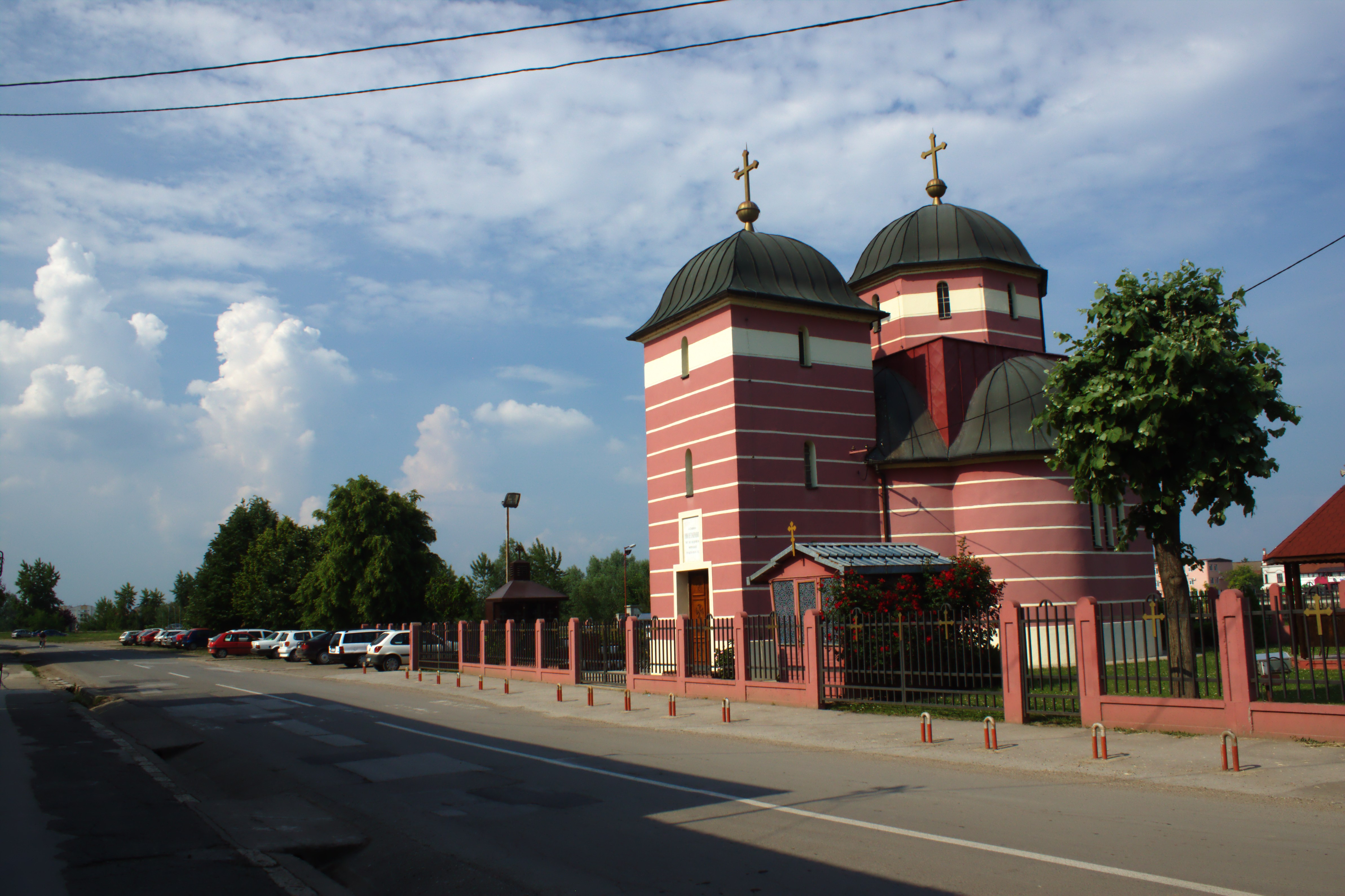 An orthodox church at Sava riverbank in Mačvanska Mitrovica, Serbia